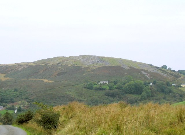 Carreg Dwfn. A small hill in the Brecon Beacons National Park, viewed from a road to the southeast.